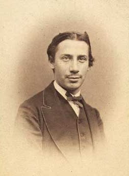 Ernst Immanuel Cohen Brandes (1844-1892), Danish national economist